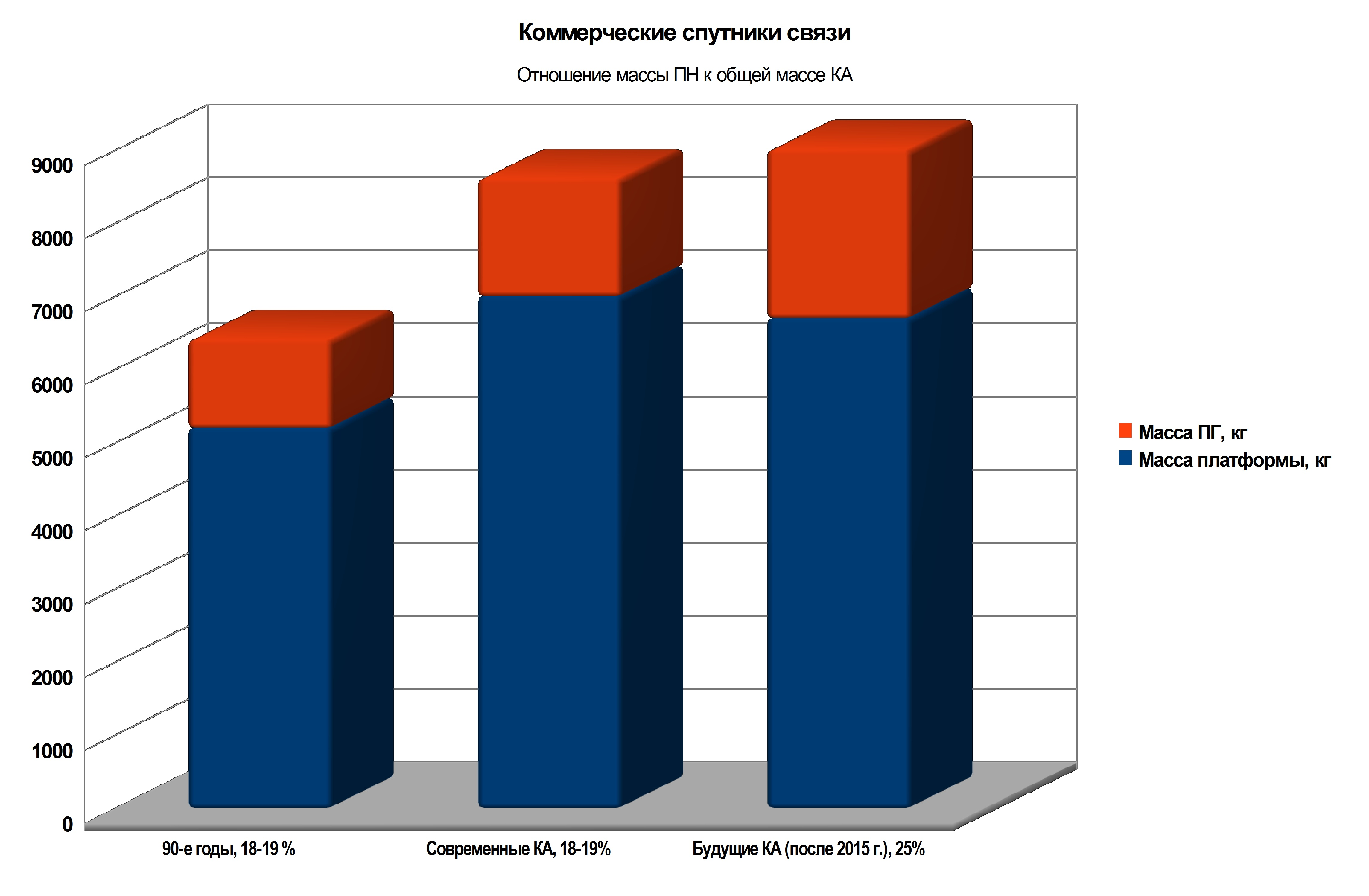 Relation Payload to general mass of the satellite for medium commercial satcoms